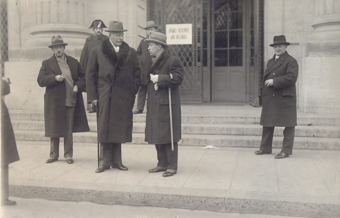 Edvard Beneš, Nikola Mushanov and Dimitar Shishmanov, Geneva, 1932.